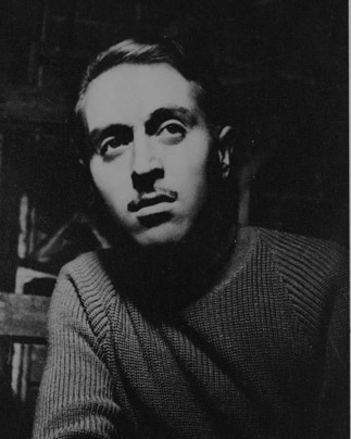 Juan Carlos Galván-actor argentino